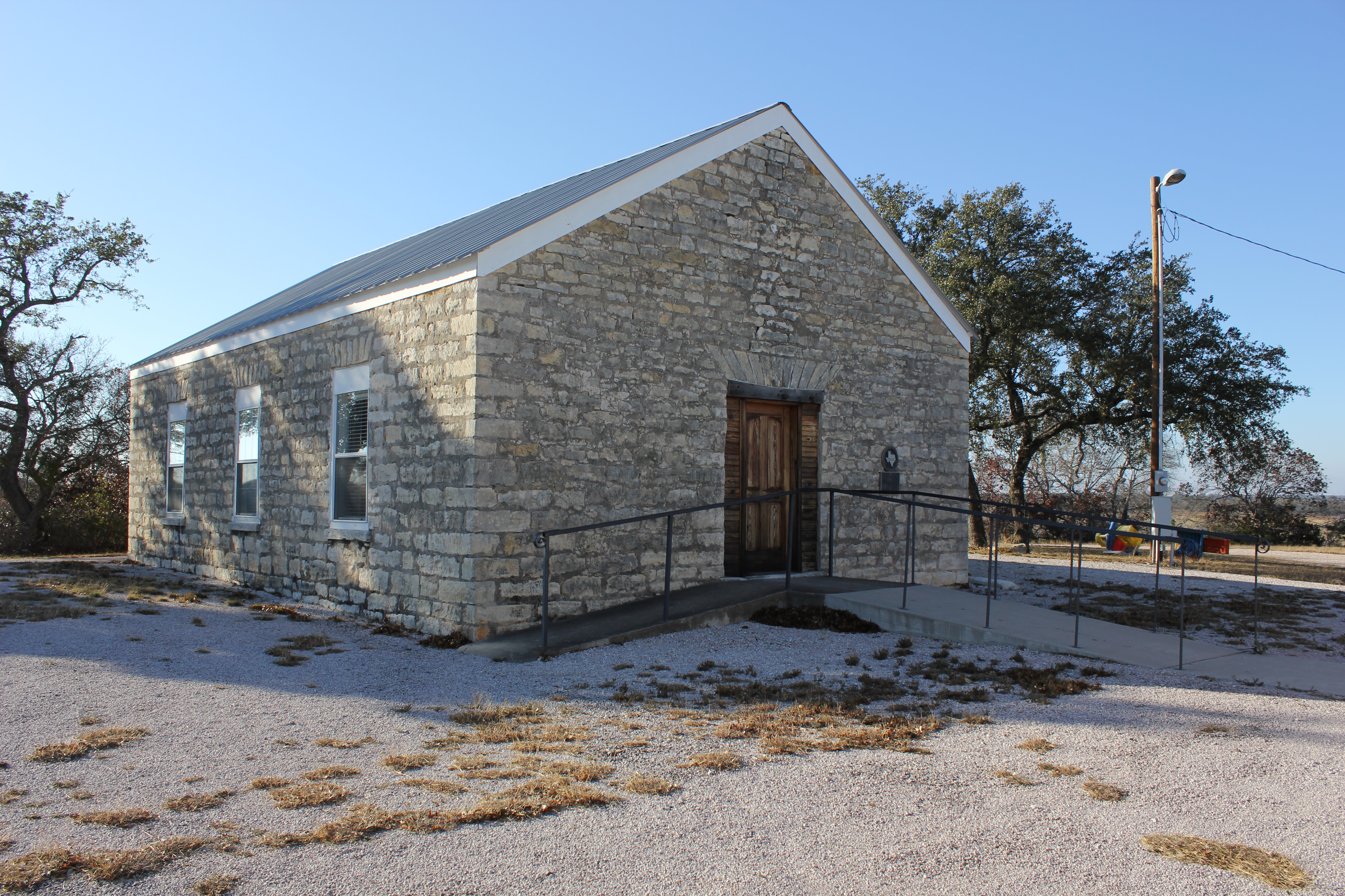 This limestone building, once a combined school and church, was erected in 1869 in Oatmeal, Texas. It was designated a Recorded Texas Historic Landmark in 1968. It is now a church.